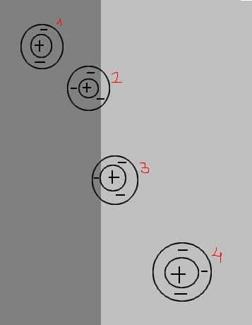 How do the Mach-bands work?